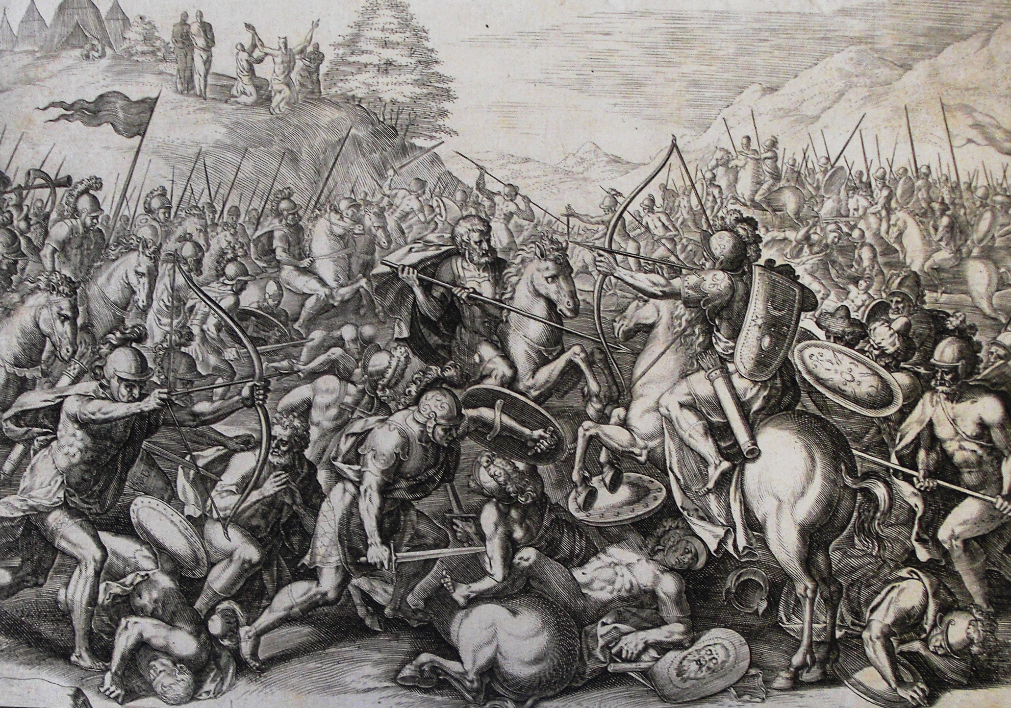 A print from the Phillip Medhurst Collection of Bible illustrations in the possession of Revd. Philip De Vere at St. George’s Court, Kidderminster, England.